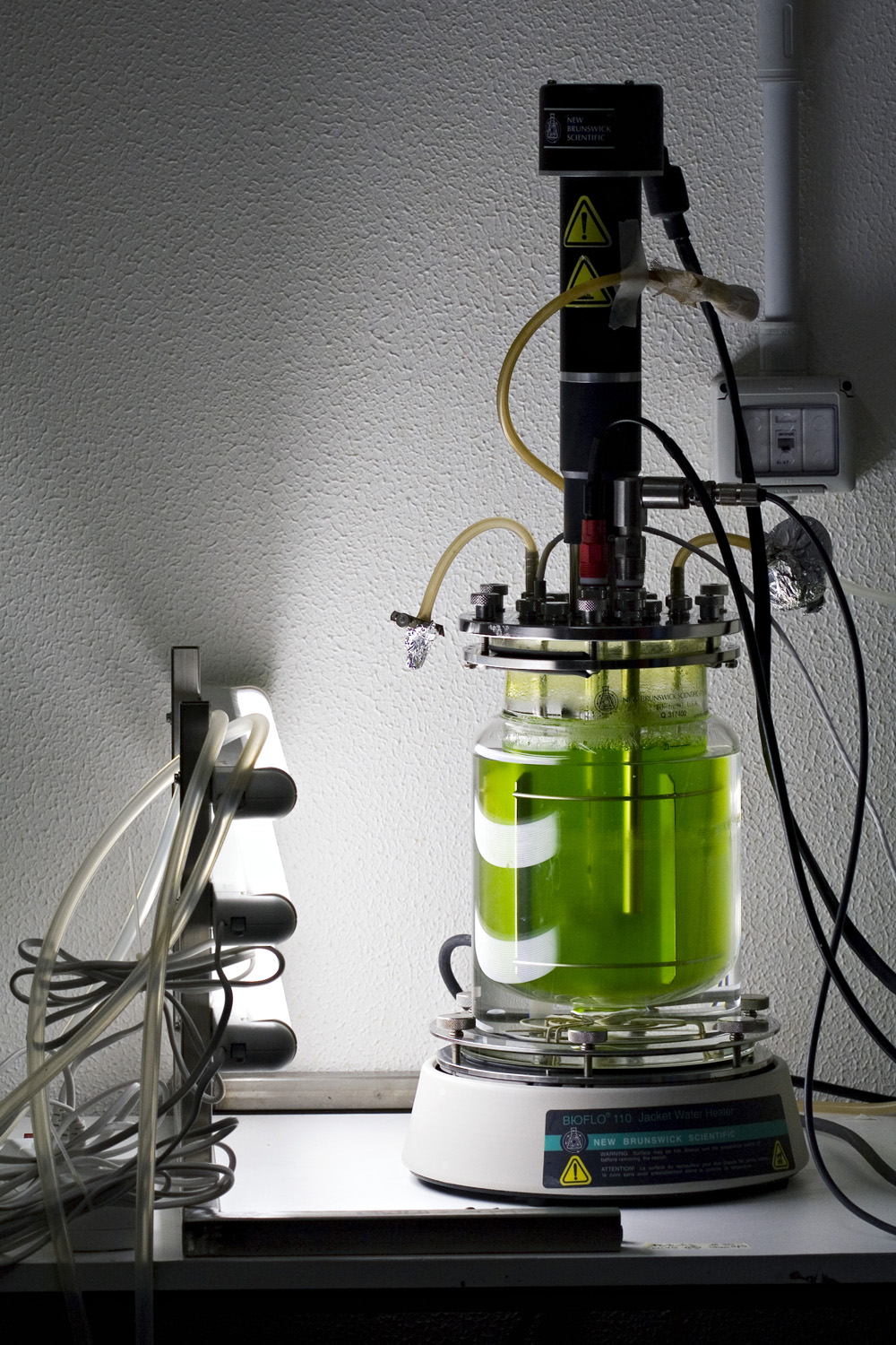 Green algae in a bioreactor. View On Black